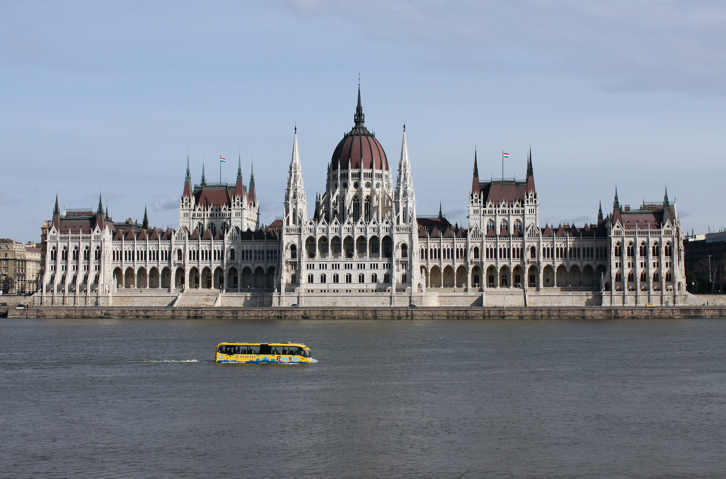 Amphibious sight-seeing bus in front of the Parlament building, Budapest, Hungary